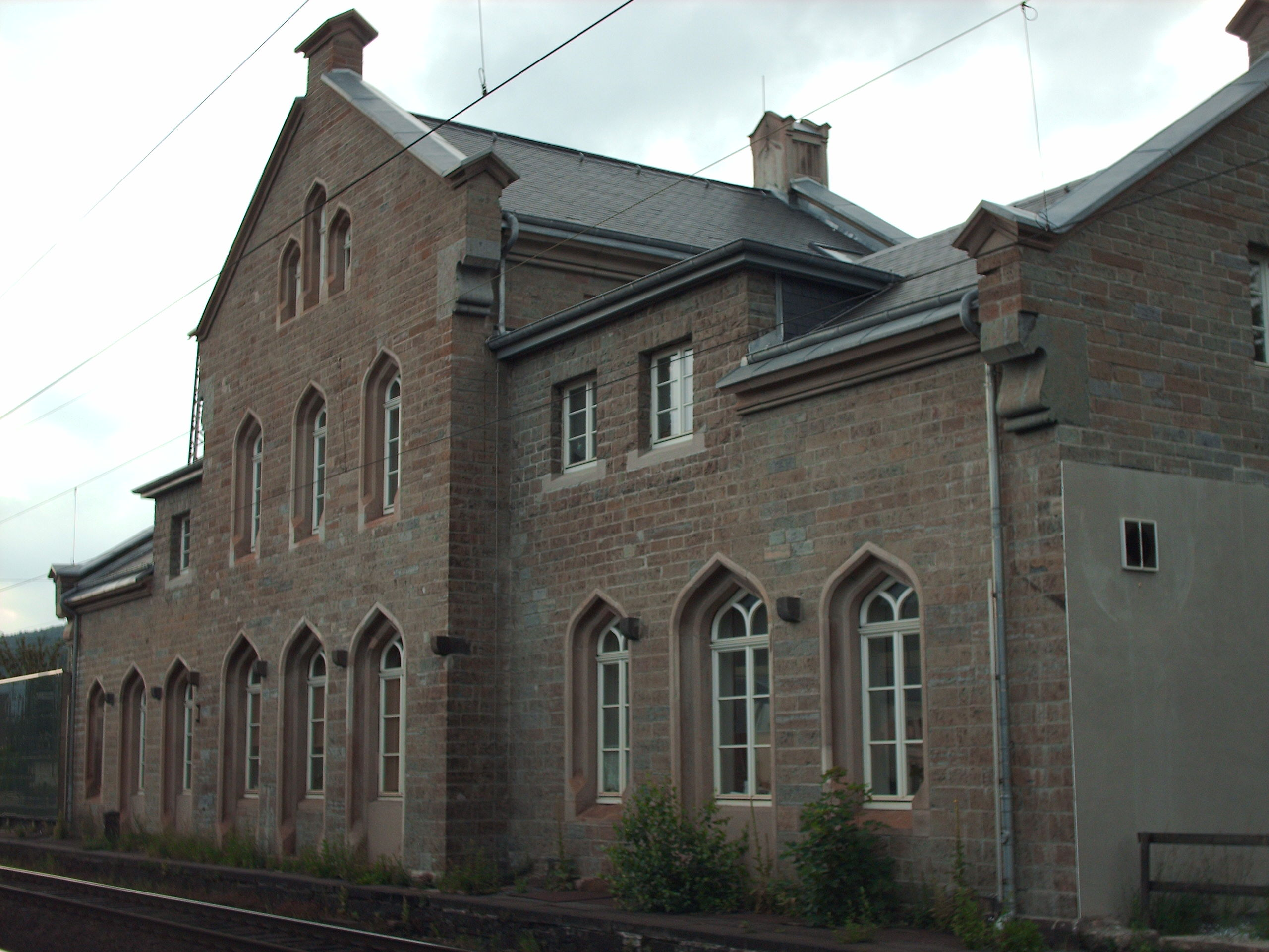 Plettenberg station, Plettenberg, Germany check usage